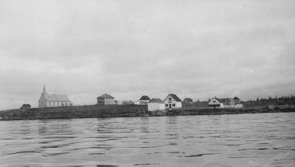 Revillon Frères Post in La Loche, Saskatchewan (1935)